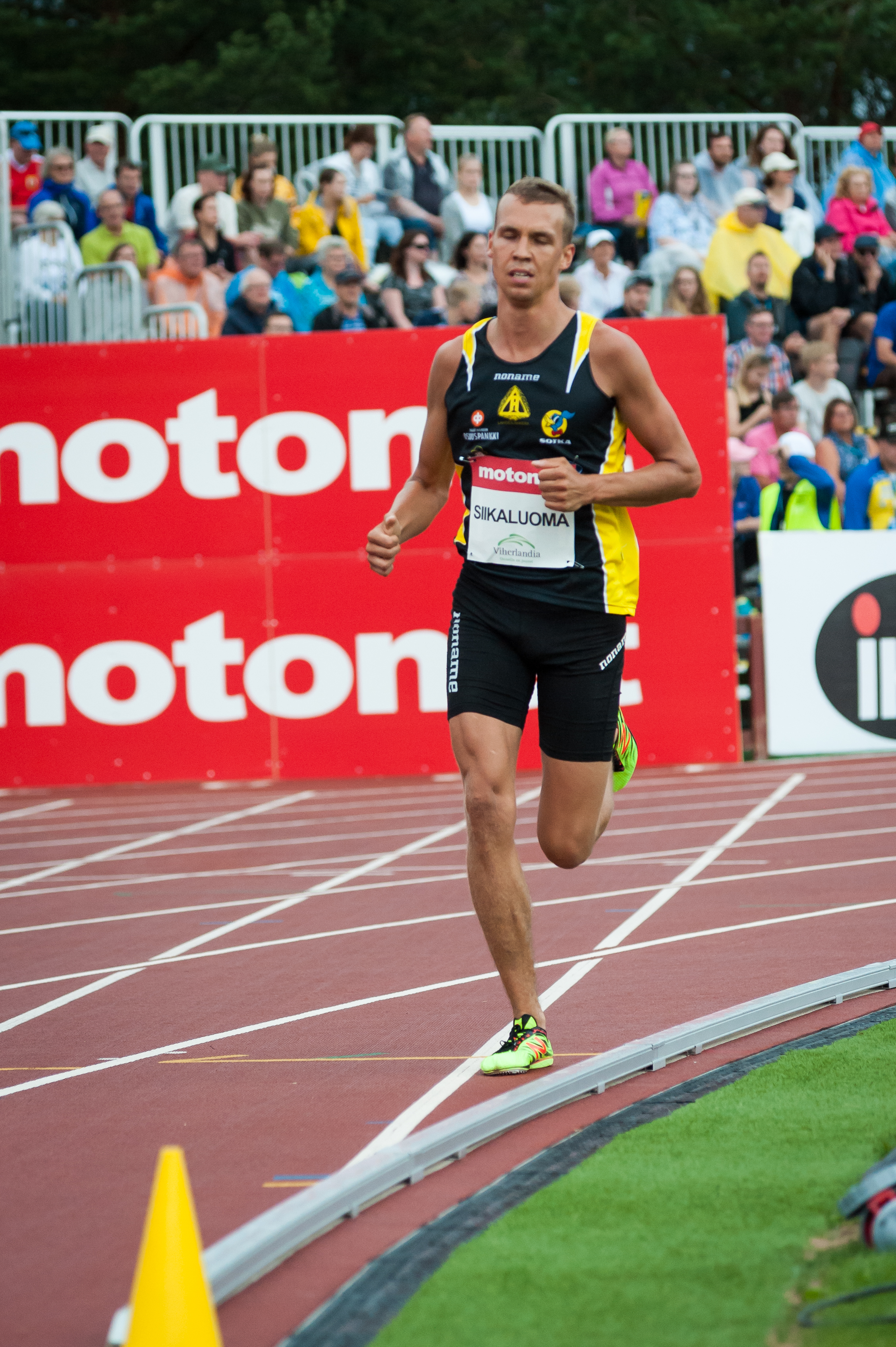 Men's 5000 m competition at the 2018 Kalevan Kisat, the Finnish championships in athletics, in Jyväskylä, Finland.